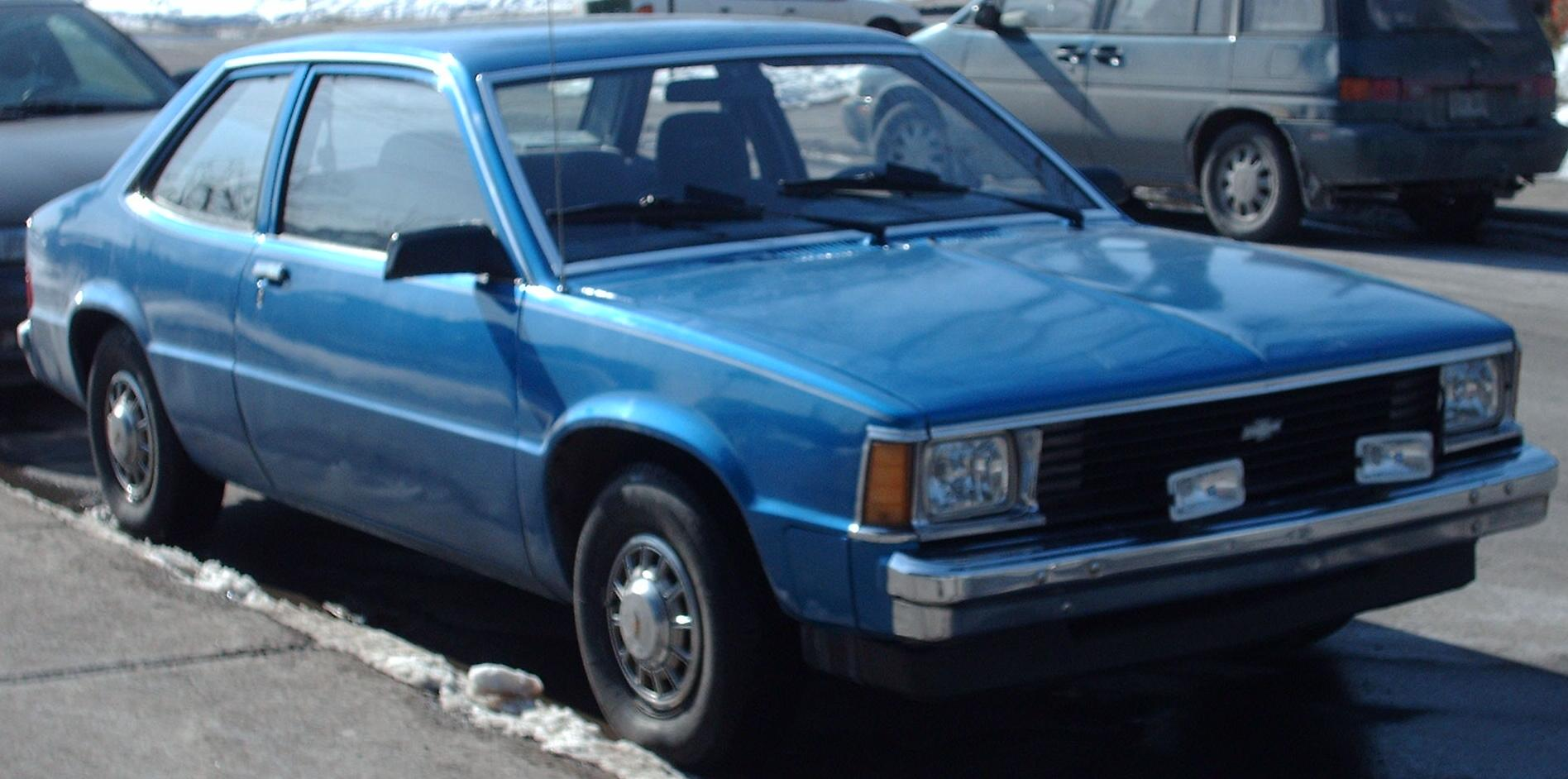 Chevrolet Citation photographed in Montreal, Quebec, Canada.